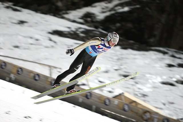 Simon Ammann during canceled competition of FIS Ski-Flying World Championships 2012 in Vikersund